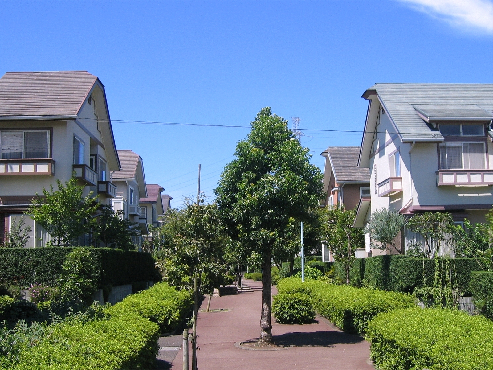 green walk (in a residential area), Yakushidai, Machida, Tokyo, Japan